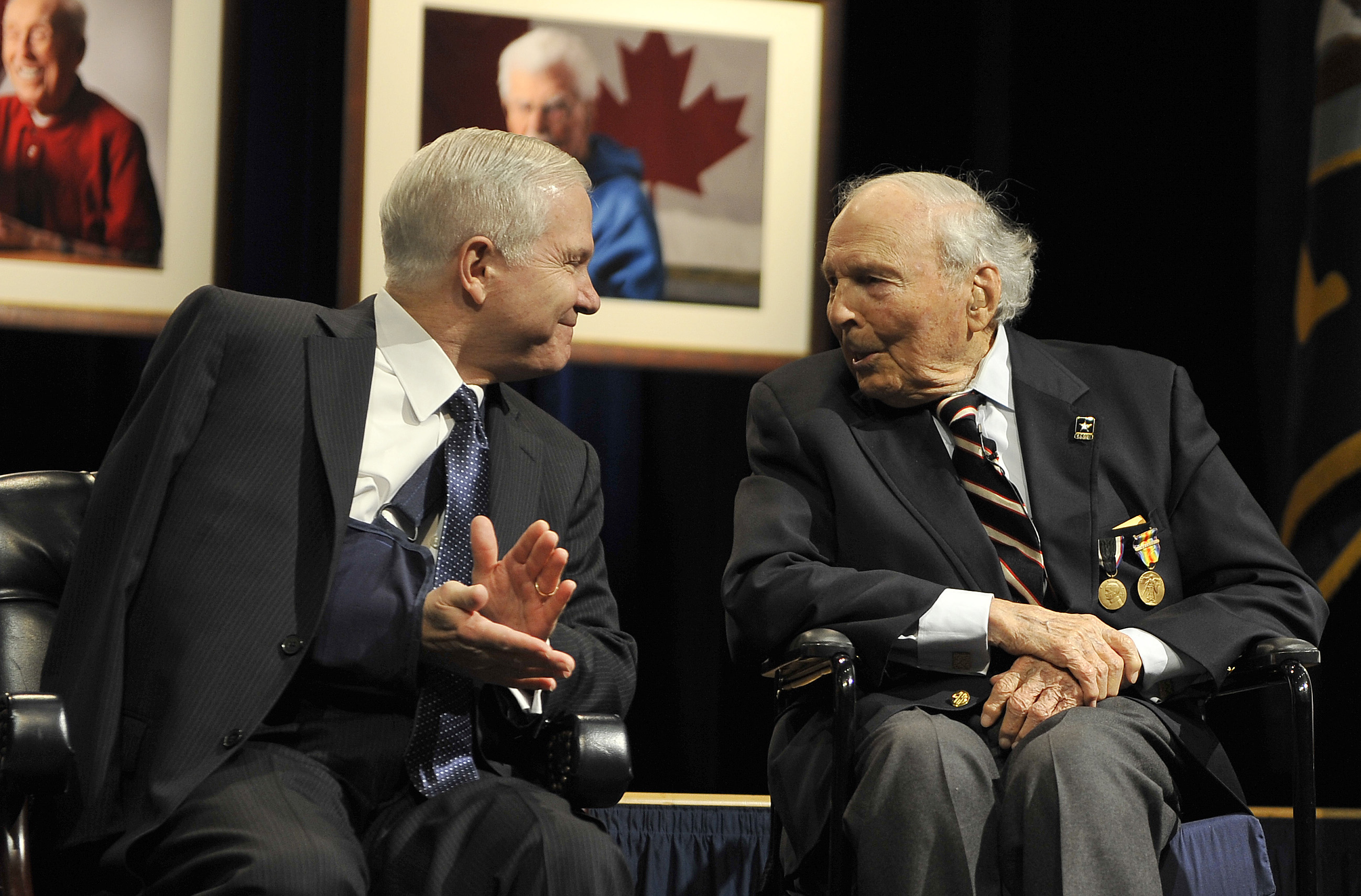 Secretary of Defense Robert M. Gates, left, talks with WWI veteran Frank Buckles during a dedication ceremony for the unveiling of portraits of WWI veterans in the Pentagon March 6, 2008. DoD photo by Cherie A. Thurlby. (